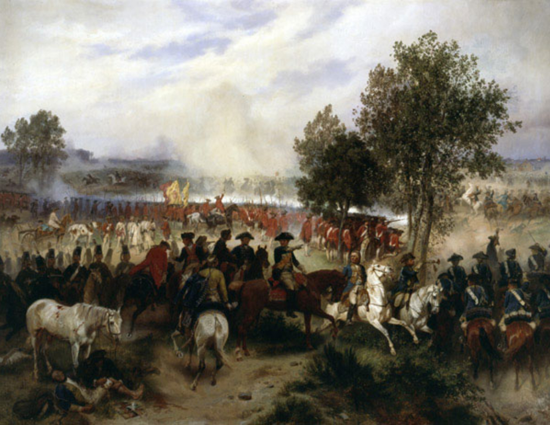 Prince Ferdinand of Brunswick during the Battle of Krefeld 1758